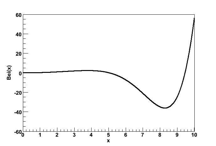 A plot of the Kelvin function Bei(x) between 0 and 10.